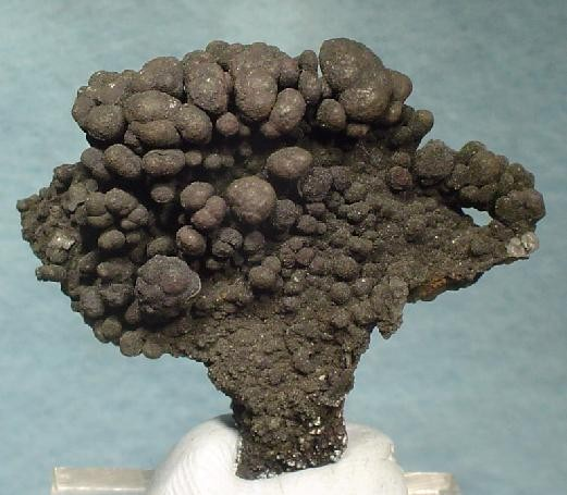 Hetaerolite, Copper Locality: Copper Queen Mine (Halero Mine), Queen Hill, Bisbee, Warren District, Mule Mts, Cochise County, Arizona, USA (Locality at ) Size: 3.6 x 3.2 x 1.5 cm. Hetaerolite is a rare zinc, manganese oxide. So, we have here a showy, rare and old combination specimen from the famous Copper Queen Mine at Bisbee. Dark, rust-brown, bubbly hetaerolite totally coats a copper leaf. Ex. Dave Stoudt and Chuck Youngblood Collections.